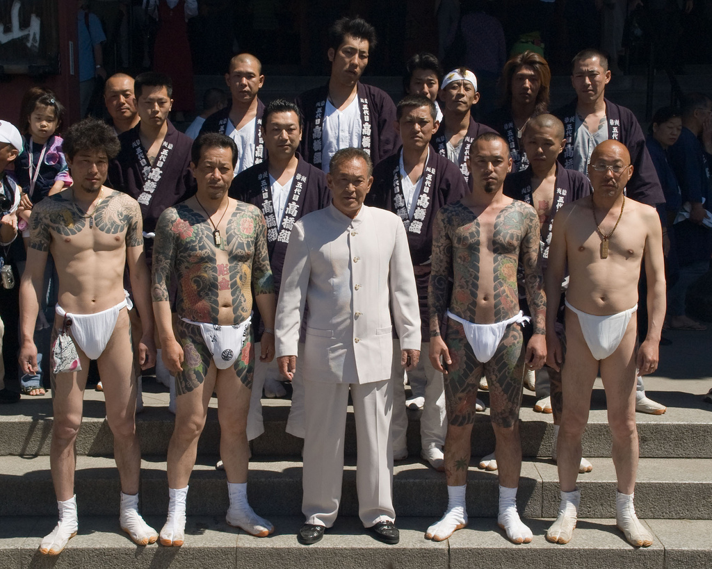 Sanja Matsuri, in Senso-ji, in the quarter of Asakusa, in Tokyo, is one of the biggest festivals in Tokyo. The festival as such, well, it's nothing too special if you've seen others. It is particular, though, by how Yakuza show off their status in the clear. I cannot find an authoritative source for this, but apparently Yakuza are not supposed/allowed to show off their tatoos (how do you pass a law that forbids the public display of tatoos, beats me). Only (supposedly) in the Sanja Matsuri, not only they do not hide themselves, but become a full-fledged showcase of art on flesh.